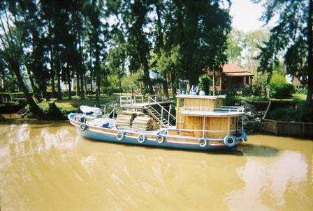 Tugboat in Argentina